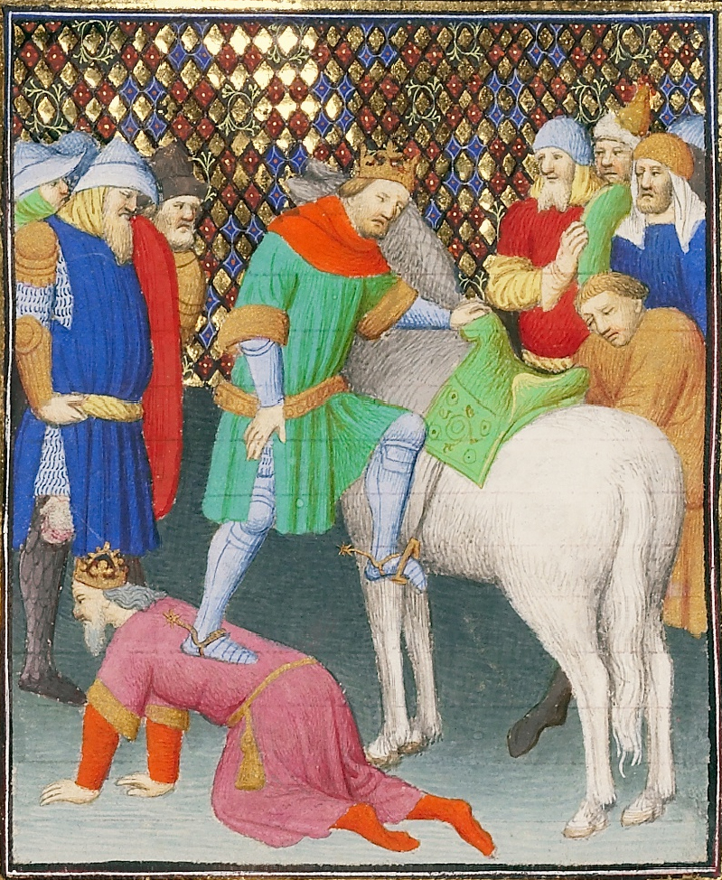 Interesting way to mount. Shapur I, king of Persia, mounts his horse by treading on the back of the Roman emperor Valerian.Illumination by the Boucicaut Master, in Boccaccio, Des cas des nobles hommes et femmes, trans. Laurent de Premierfait. French, Paris, about 1415. Tempera colors, gold leaf, and gold paint on parchment. MS. 63, fol. 249v. Getty Museum, Los Angeles.